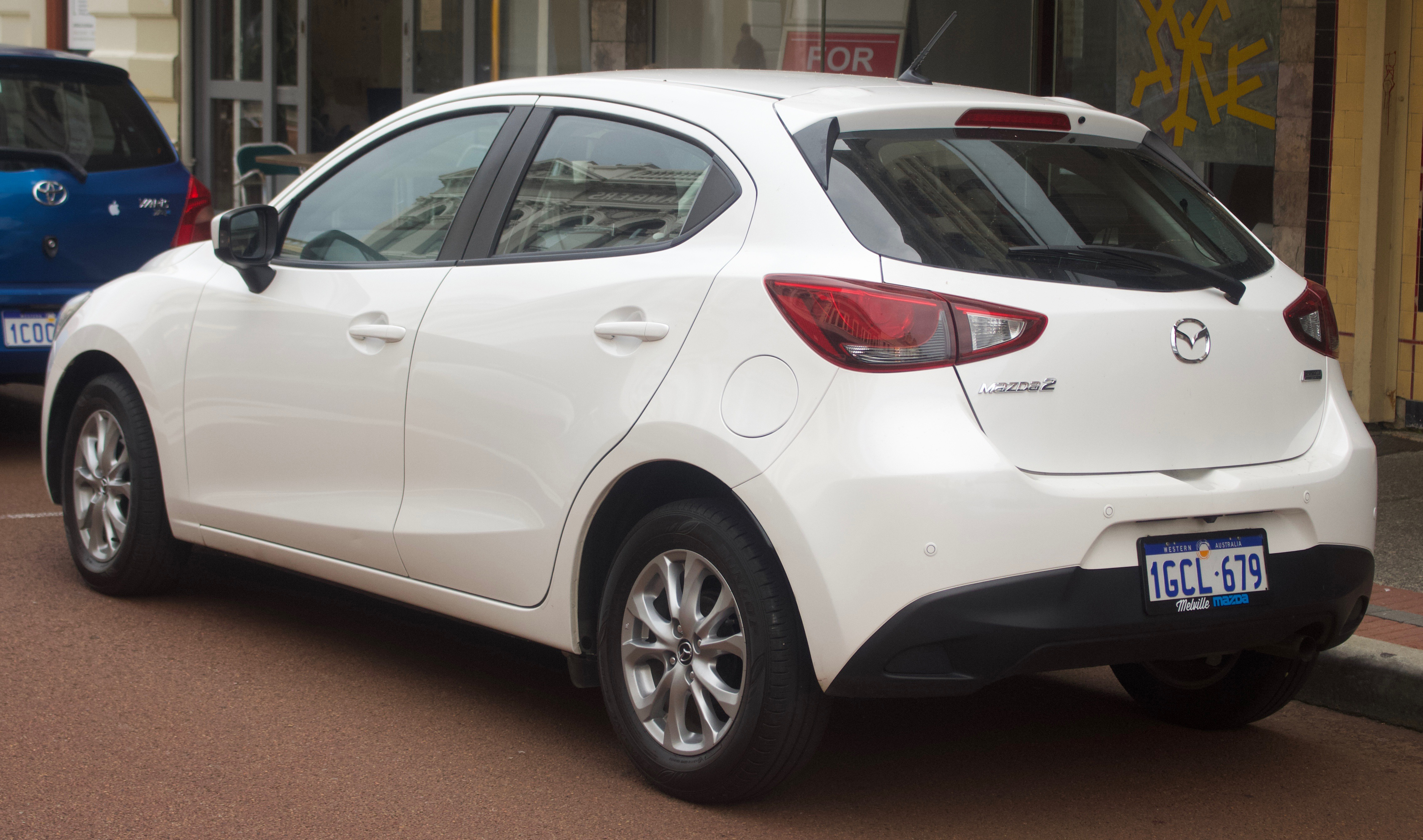 2016 Mazda2 (DJ) Maxx hatchback. Photographed in Fremantle, Western Australia, Australia.